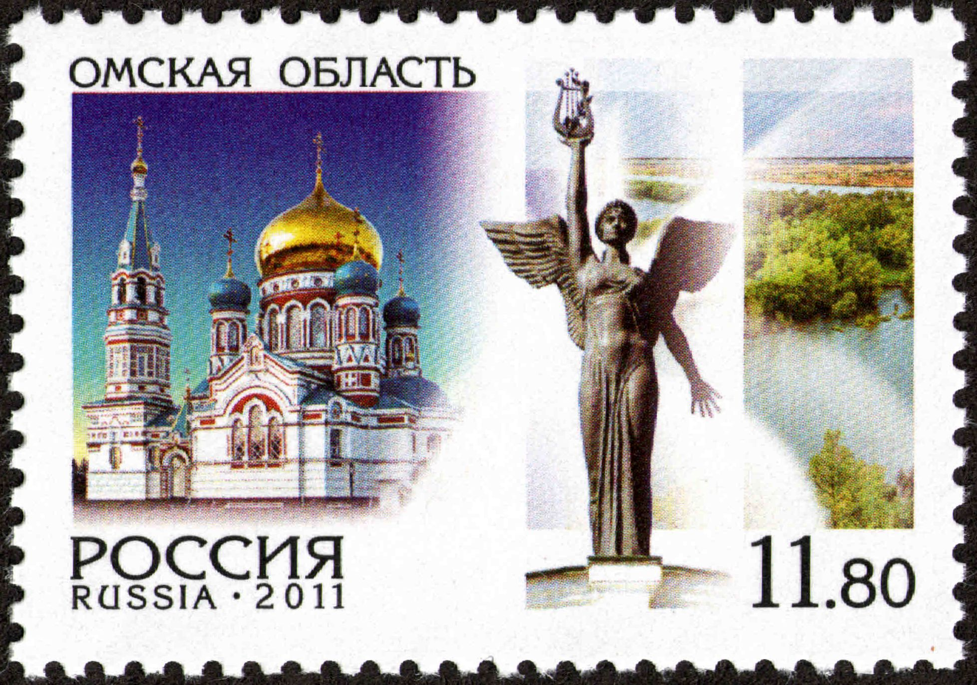 Russia. Regions. Omsk Oblast.Assumption Cathedral in Omsk; the sculpture Winged Genius (by Vladimir Winkler), mounted on the pediment of Omsk Academic Theatre of Drama; Irtysh River.The stamp of Russia, 11.80 Rubles, 12 December 2011, PTC Marka Catalogue No 1554, Michel No 1786. Coated paper. Offset printing. Perforation: comb 12:12½. Size of the stamp: 55.5×28.5 mm. Print run: 330,000.